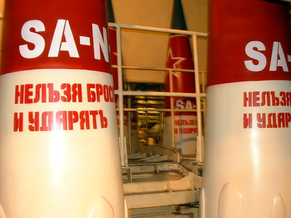 Picture taken by Lukacs.